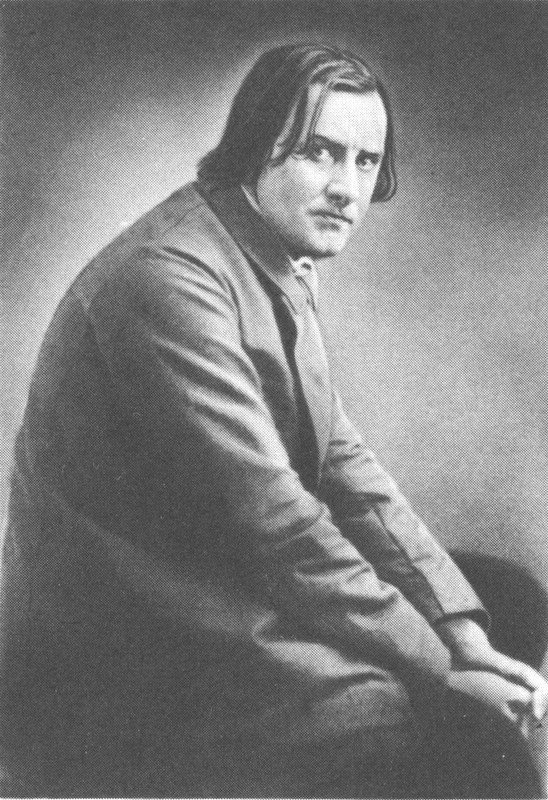 Russian actor Kachalov_V. I.